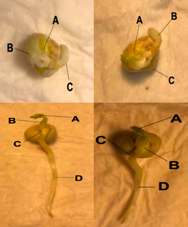 The photos show pea seeds at two different stages in the process of germination. The top two photos show two different seeds at the beginning of the germination process, while the bottom two photos show the same two seeds at the end of the germination process, when their primary shoots have emerged.